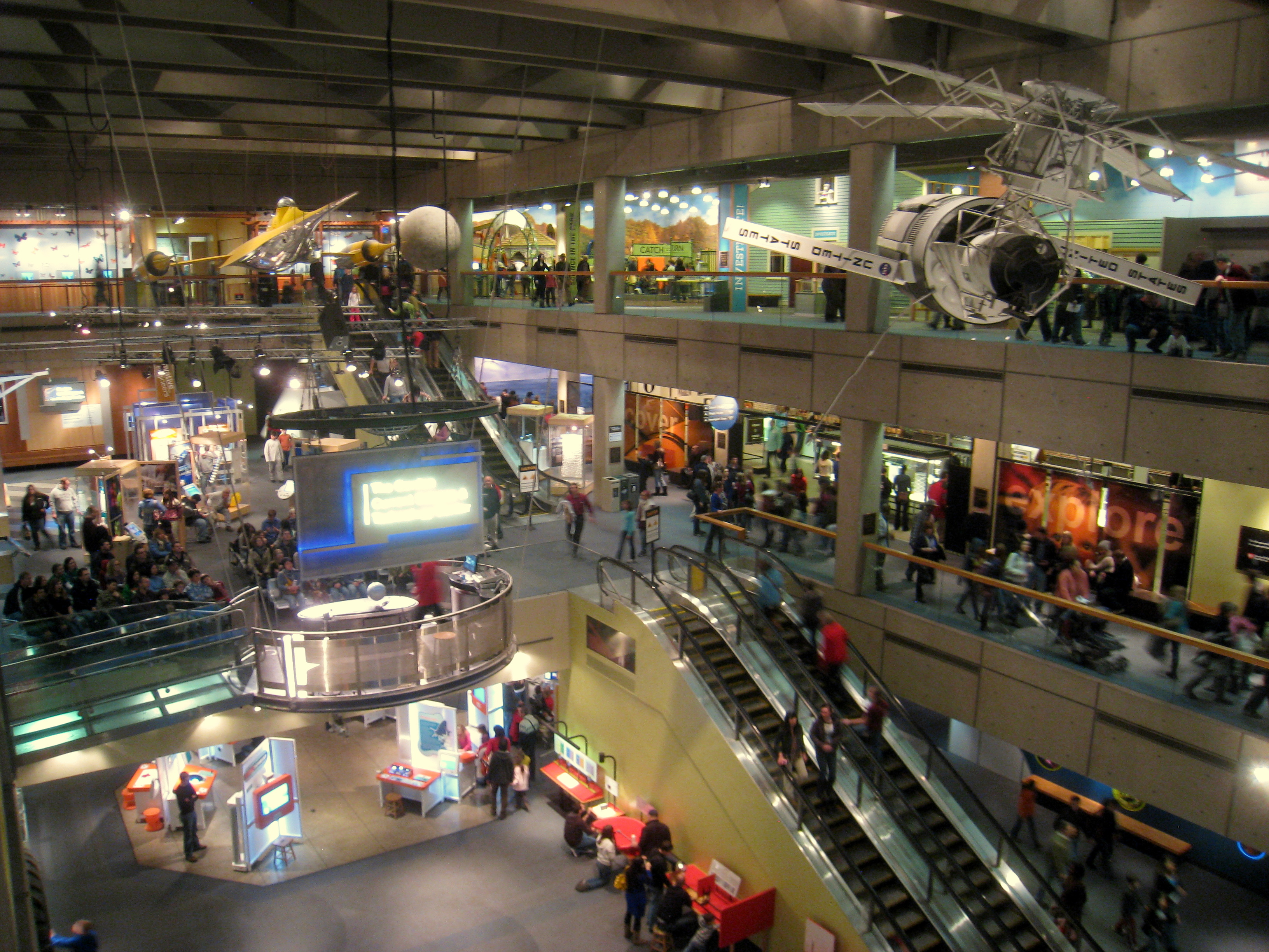 General view, Museum of Science, Boston, Massachusetts, USA. Note that there was no prohibition against photography in the museum.